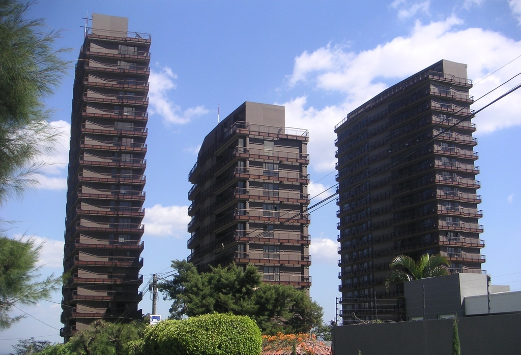 Housing complex comprising three towers of apartments in San Salvador